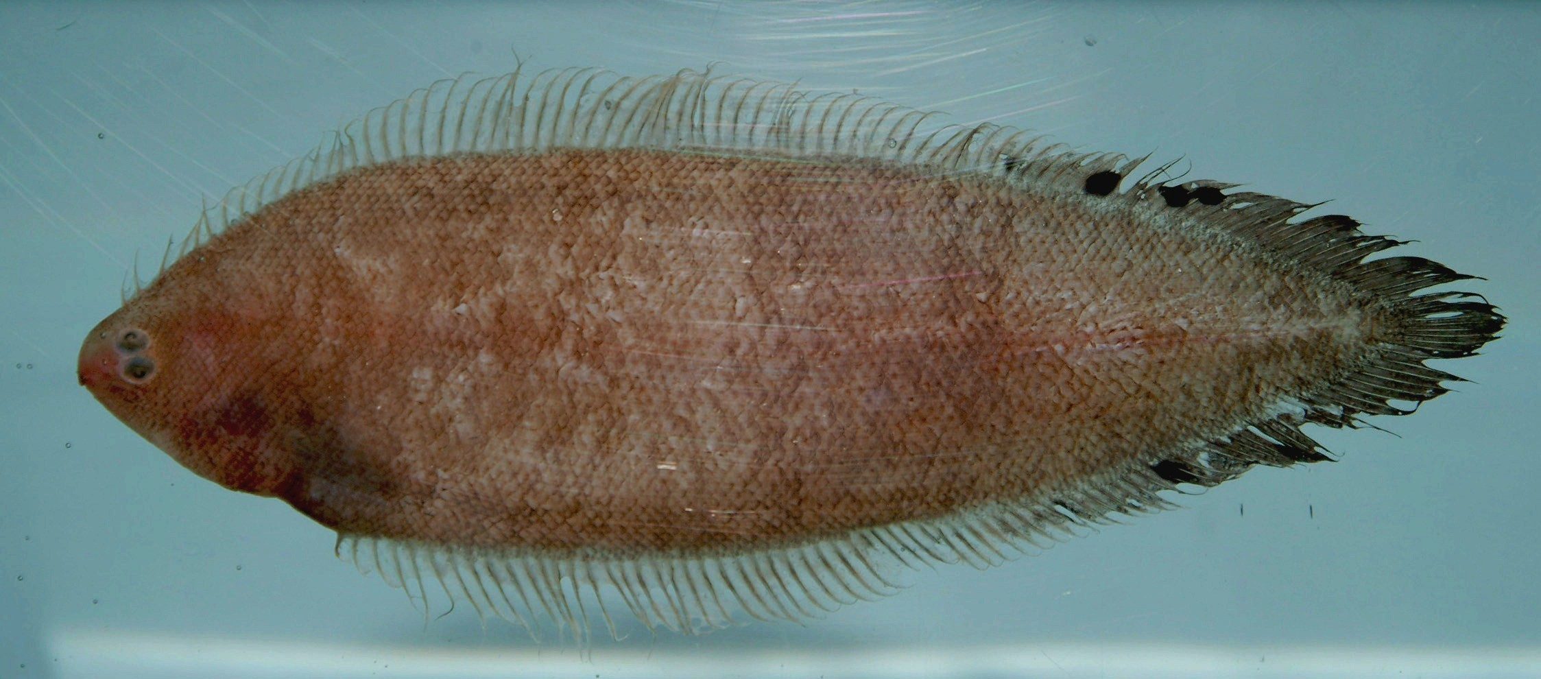 Spottedfin tonguefish ( Symphurus diomedeanus )